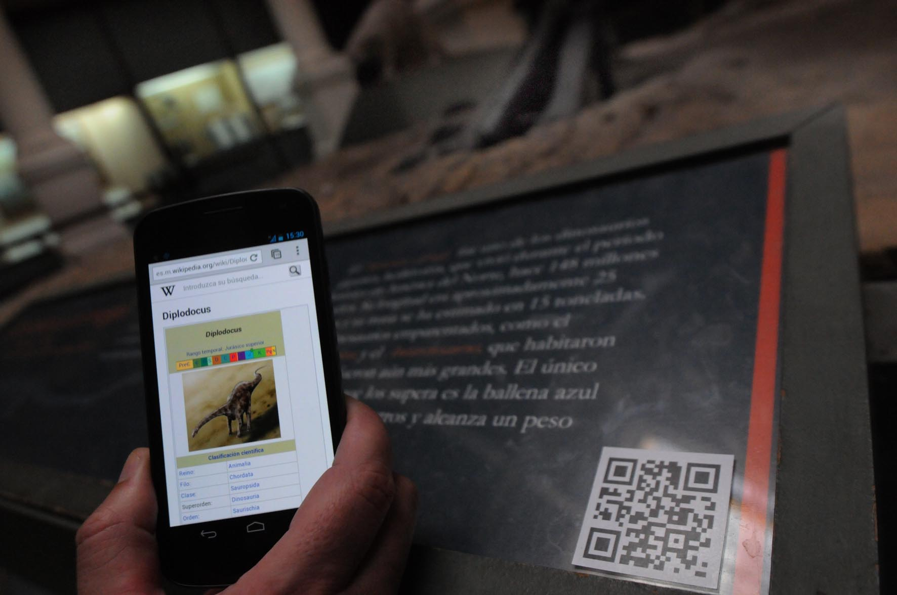 QRpedia implementation at La Plata Museum. Diplodocus.